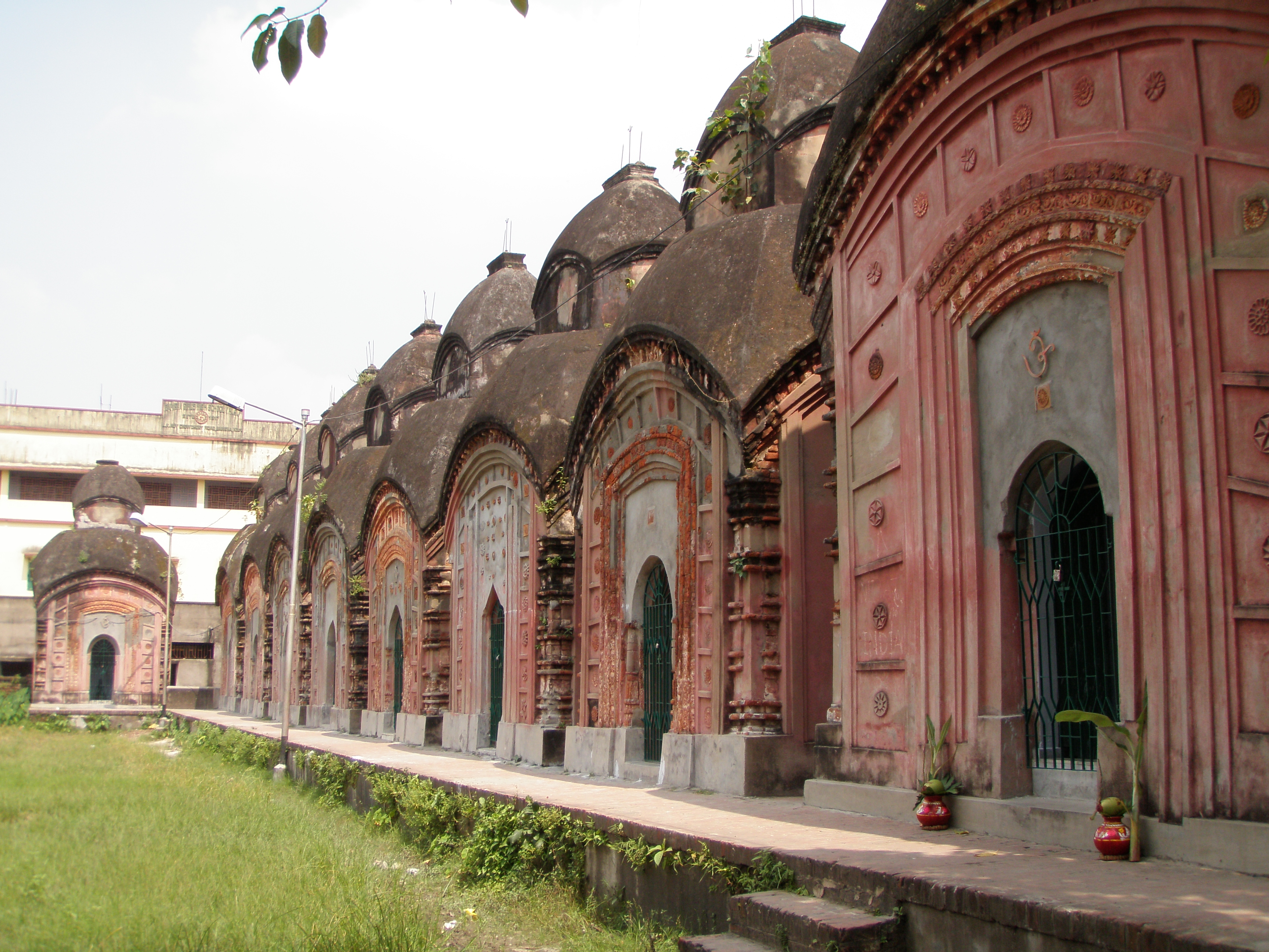 Photograph taken on October 2011. This media file is uploaded with India loves Wikipedia event.